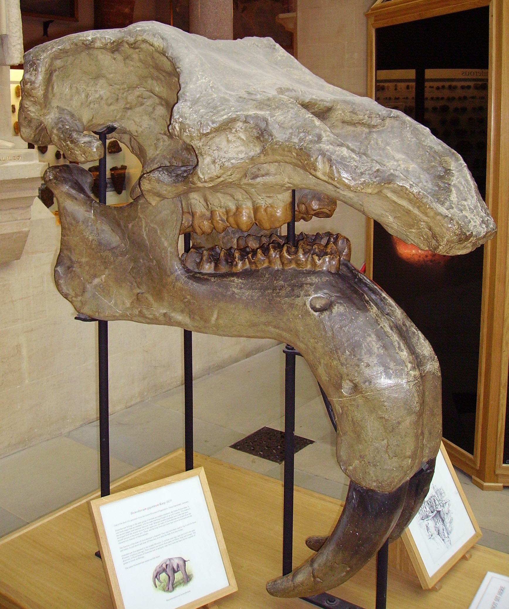 Deinotherium skull from Oxford University Museum of Natural History.